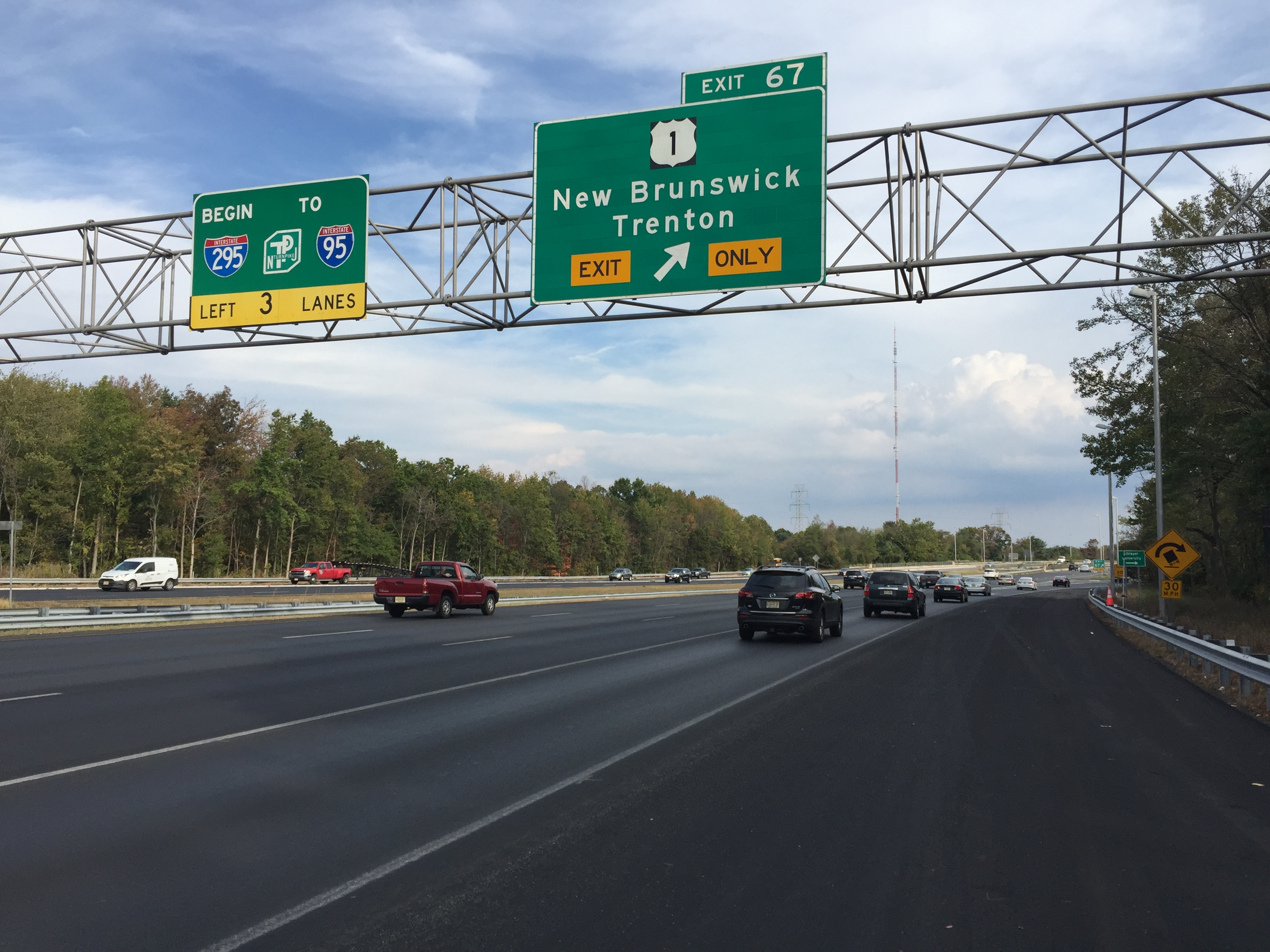 View north at the north end of Interstate 95 and south at the north end of Interstate 295 at Exit 67 (U.S. Route 1, New Brunswick, Trenton) in Lawrence Township, Mercer County, New Jersey